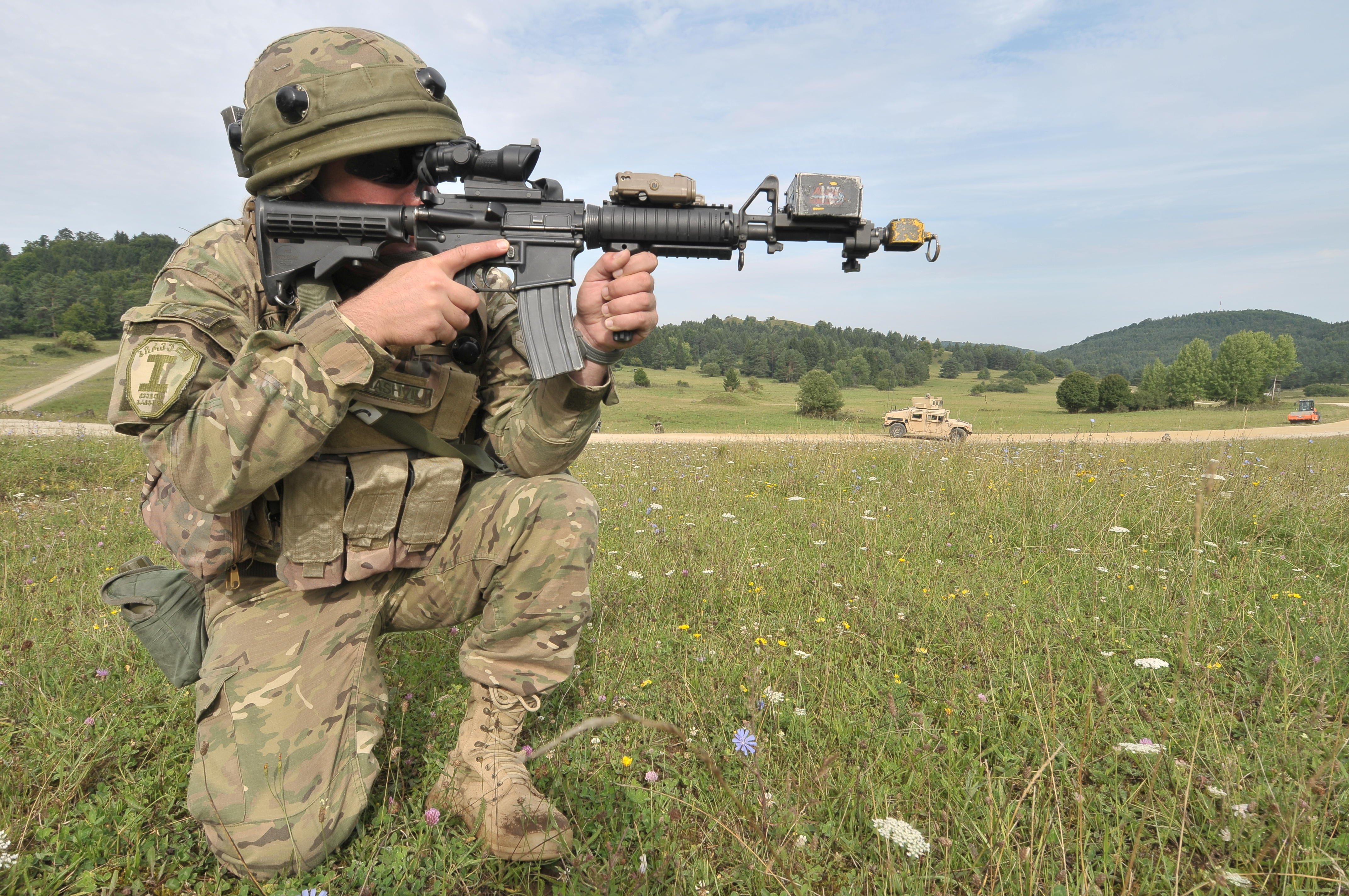 Georgian army Sgt. Jeskov Bertarvelik of Charlie Company, 12th Light Infantry Battalion aims his M4 rifle during a mission rehearsal exercise (MRE) at the Joint Multinational Readiness Center in Hohenfels, Germany, Aug. 6, 2012. MREs are designed to prepare units for deployment to the Afghanistan theater of operations to conduct counterinsurgency, stability, and transportation operations in support of NATO International Security Assistance Force.